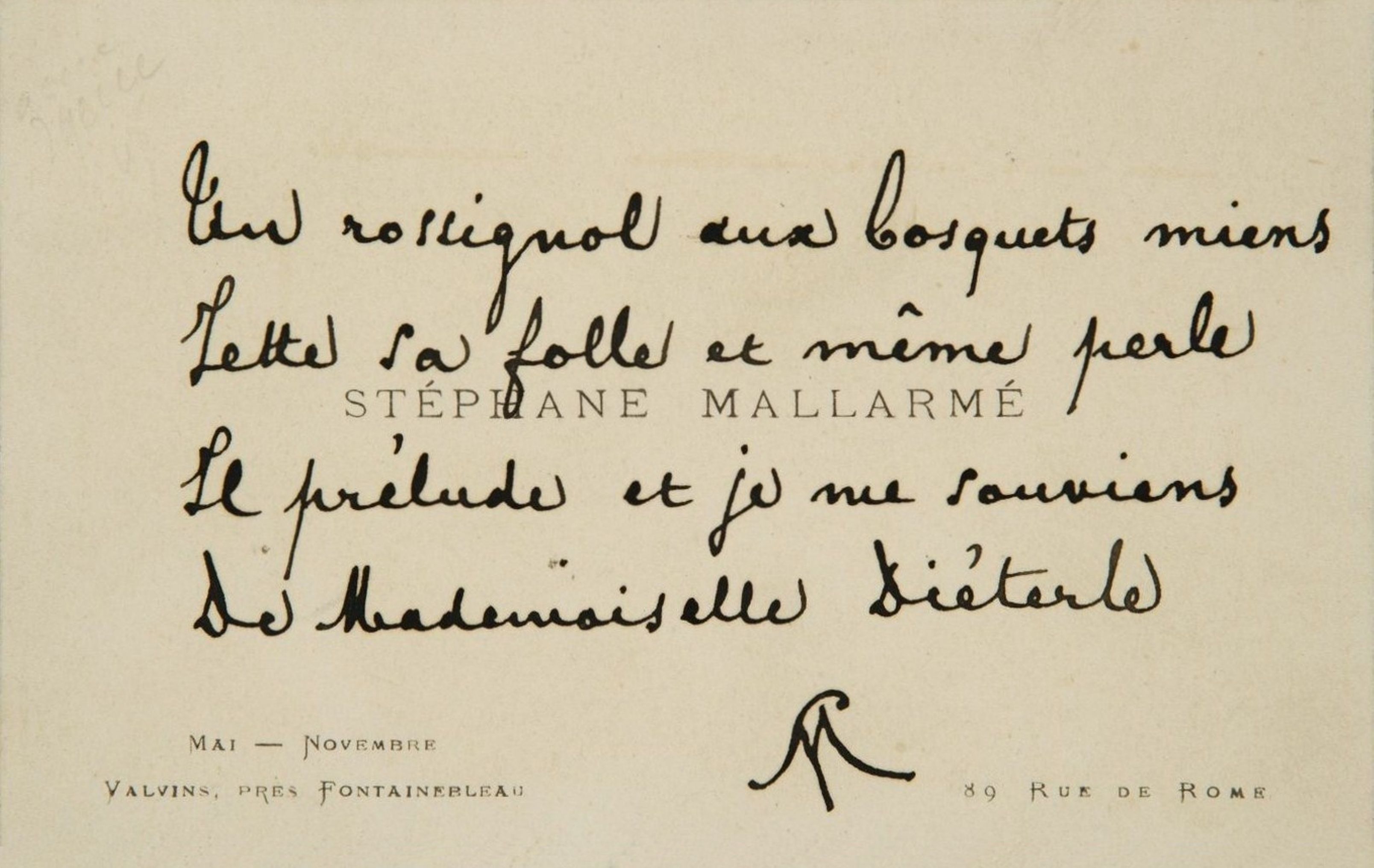 Handwritten poem signed with the monogram SM, composed on 28 April 1898 by Stéphane Mallarmé for the actress Amélie Diéterle. One of the last poems of Stéphane Mallarmé, who dies the 9 September 1898.Amélie Diéterle is a French actress born in Strasbourg on 20 February 1871 and died in Cannes on 20 January 1941. She was legitimated in Paris in 1892 by Captain Louis Laurent, Knight of the Legion of Honor. Amélie Diéterle married in Vallauris on 16 June 1930 with André Simon (1877-1965). Amélie Diéterle plays mainly at the Théâtre des Variétés in Paris during the Belle Époque.